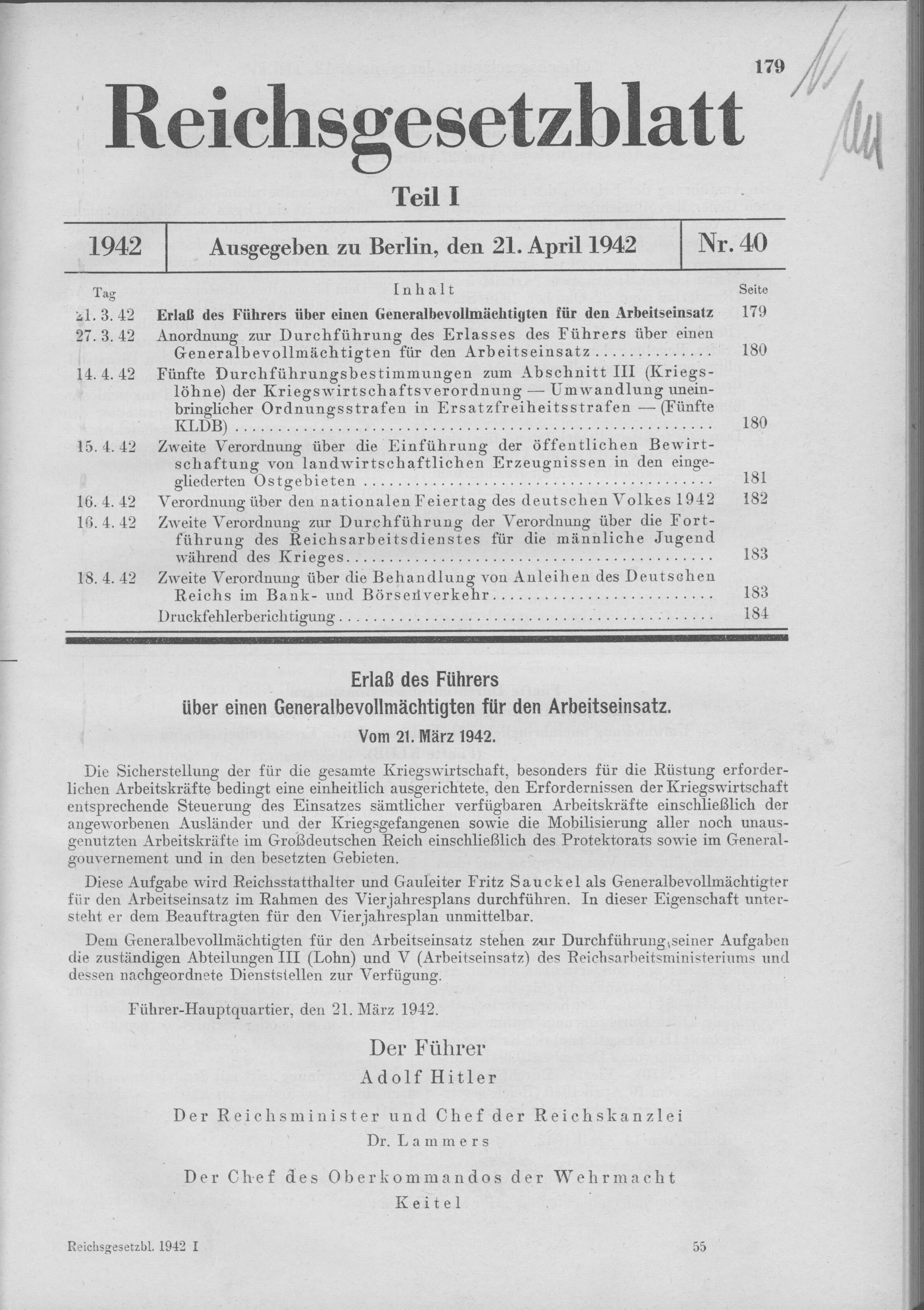 Scan from the Imperial Law Gazette of Germany, 1942, part 1